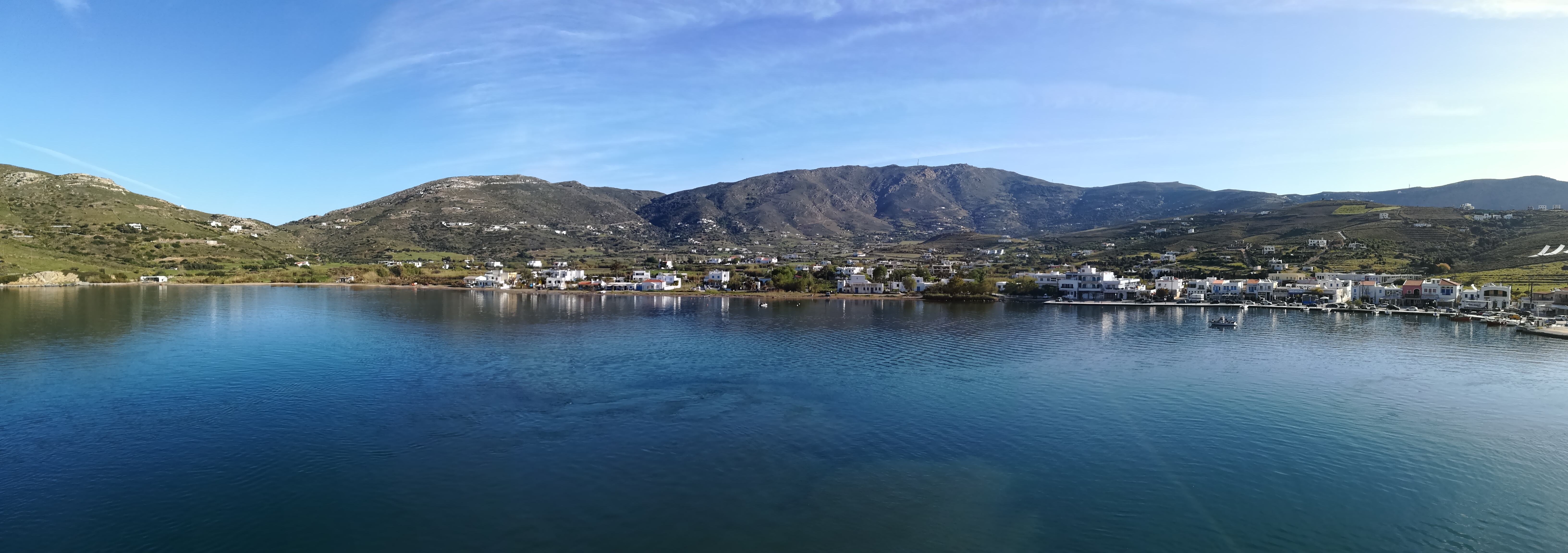 View of Gavrio in Andros, Greece